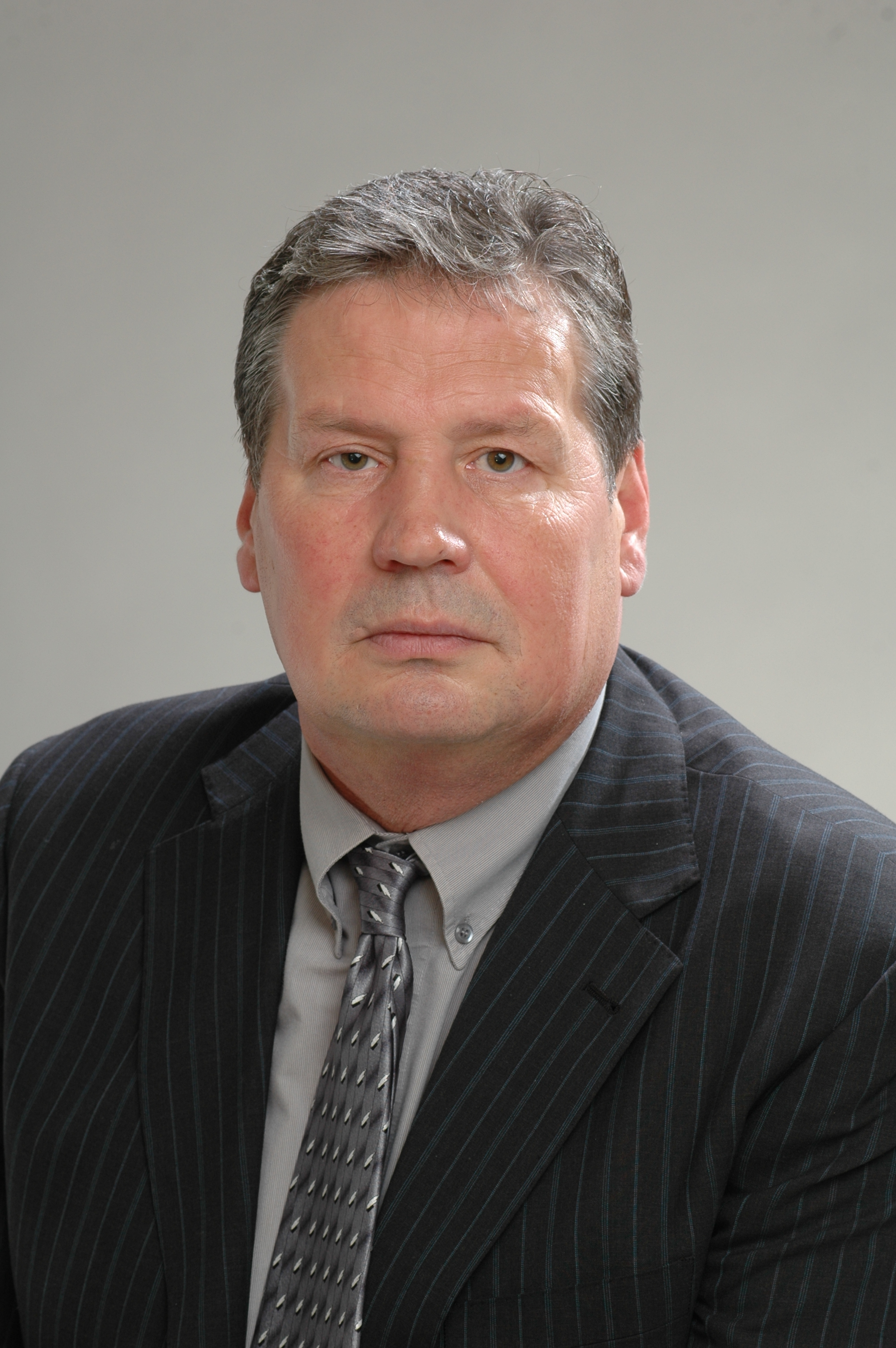 Deputy of the 9th Saeima Kārlis Leiškalns